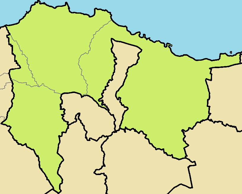 Karavas Municipality with quarters (de jure).